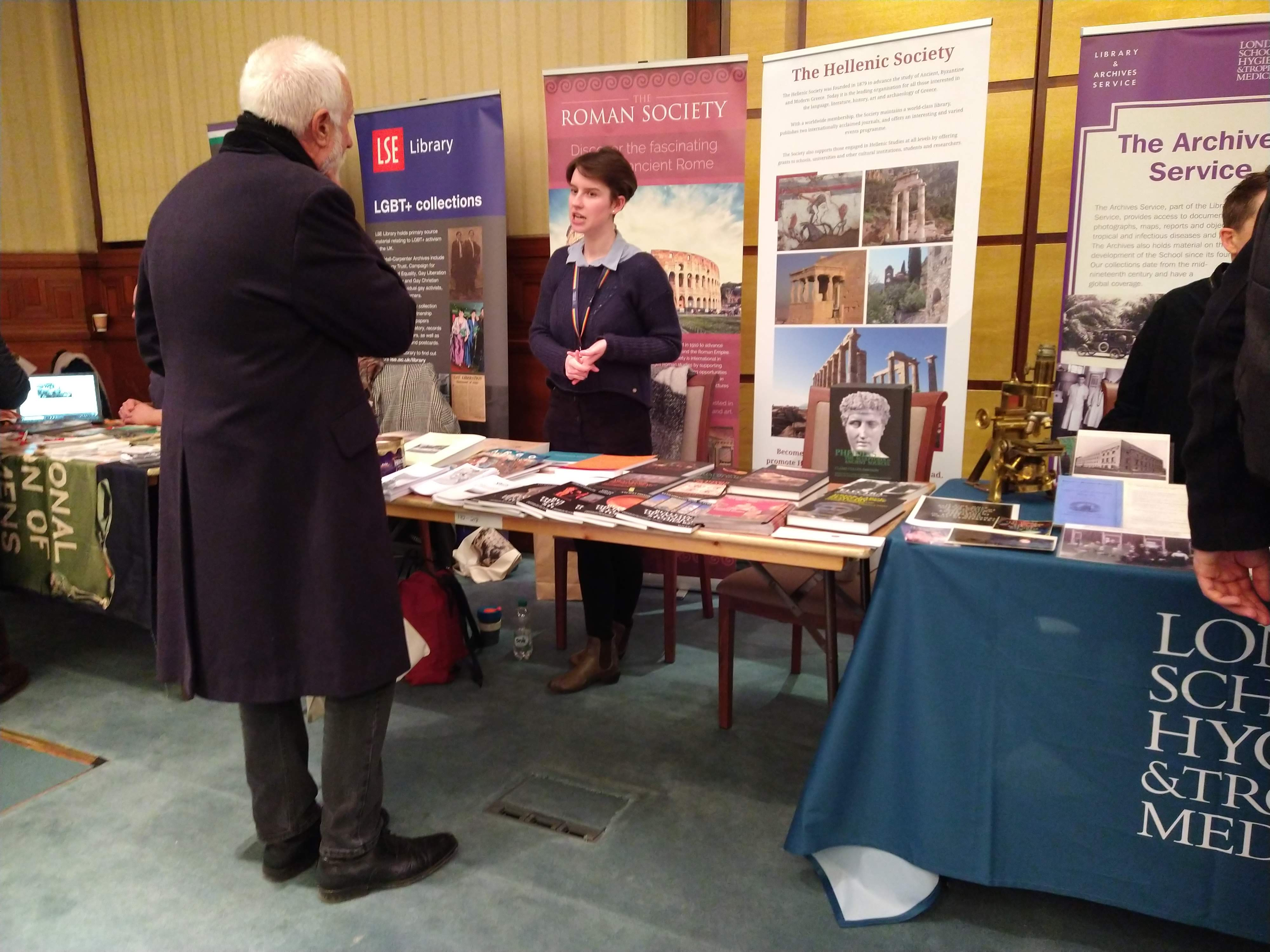 University of London School of Advanced Study History Day 2019